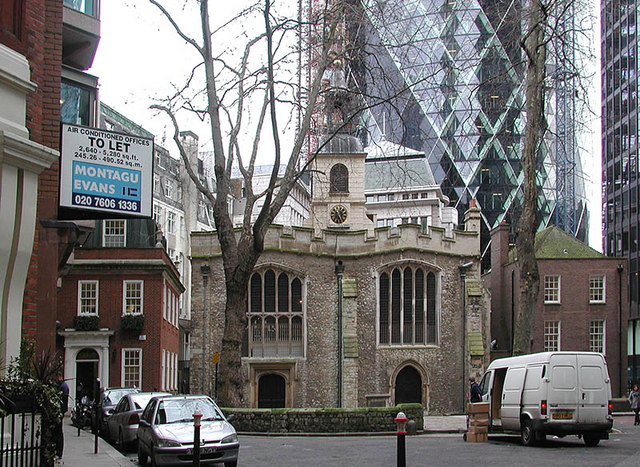 St Helen, Great St Helens, London EC3